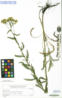 Achillea collina Becker ex Rchb. in Herbarium of Botanic Garden and Botanical Museum Berlin-Dahlem. Röpert D. (ed.) 2000+